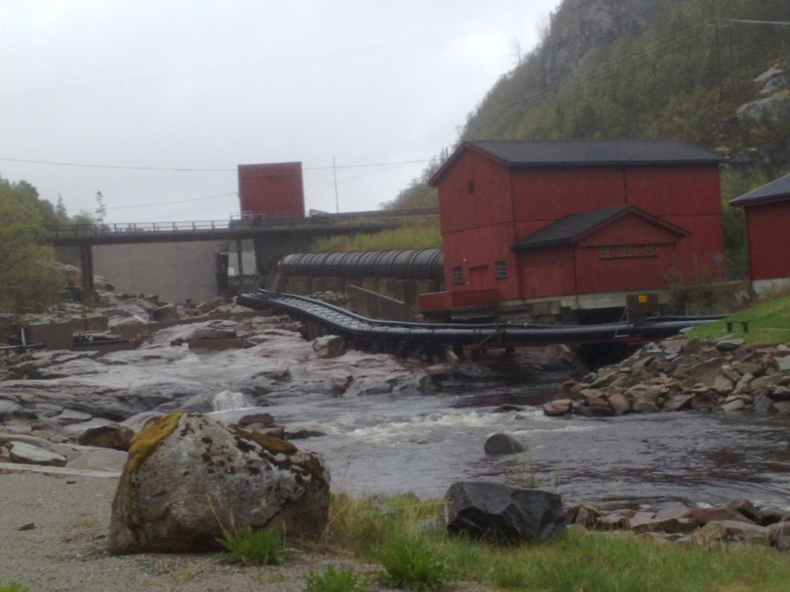 Oplø river and Salsbruket hydroelectric powerplant